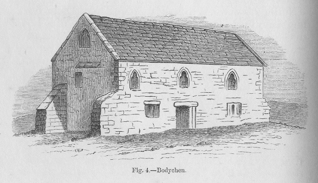 Bodychen Llandrygarn. Arch Camb Vol 2 1872 238